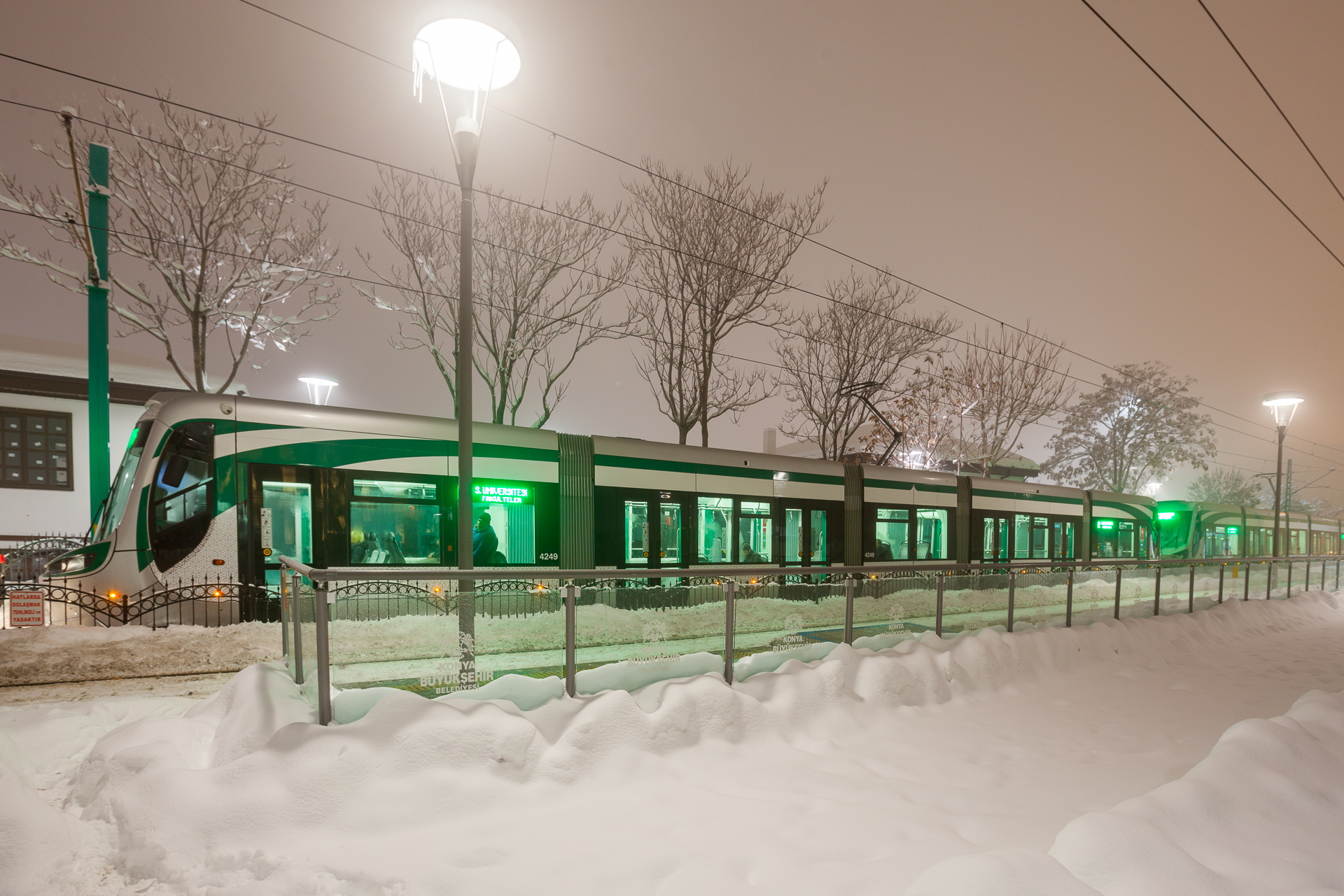 Kültür park stop, Konya.